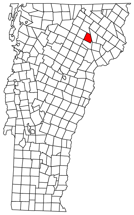 Description: Map of Vermont towns with Sheffield highlighted Source: Map created by Jared C. Benedict on 26 March 2004. Copyright: © Jared C. Benedict.